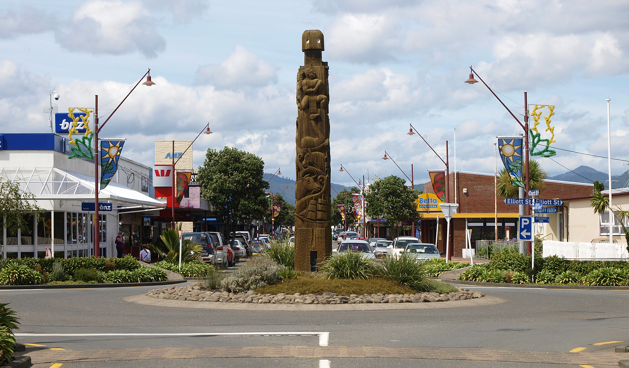 Opotiki, Bay of Plenty, New Zealand. Main street (Church Street) with a carving which portrays the progress of civilisation of this area.